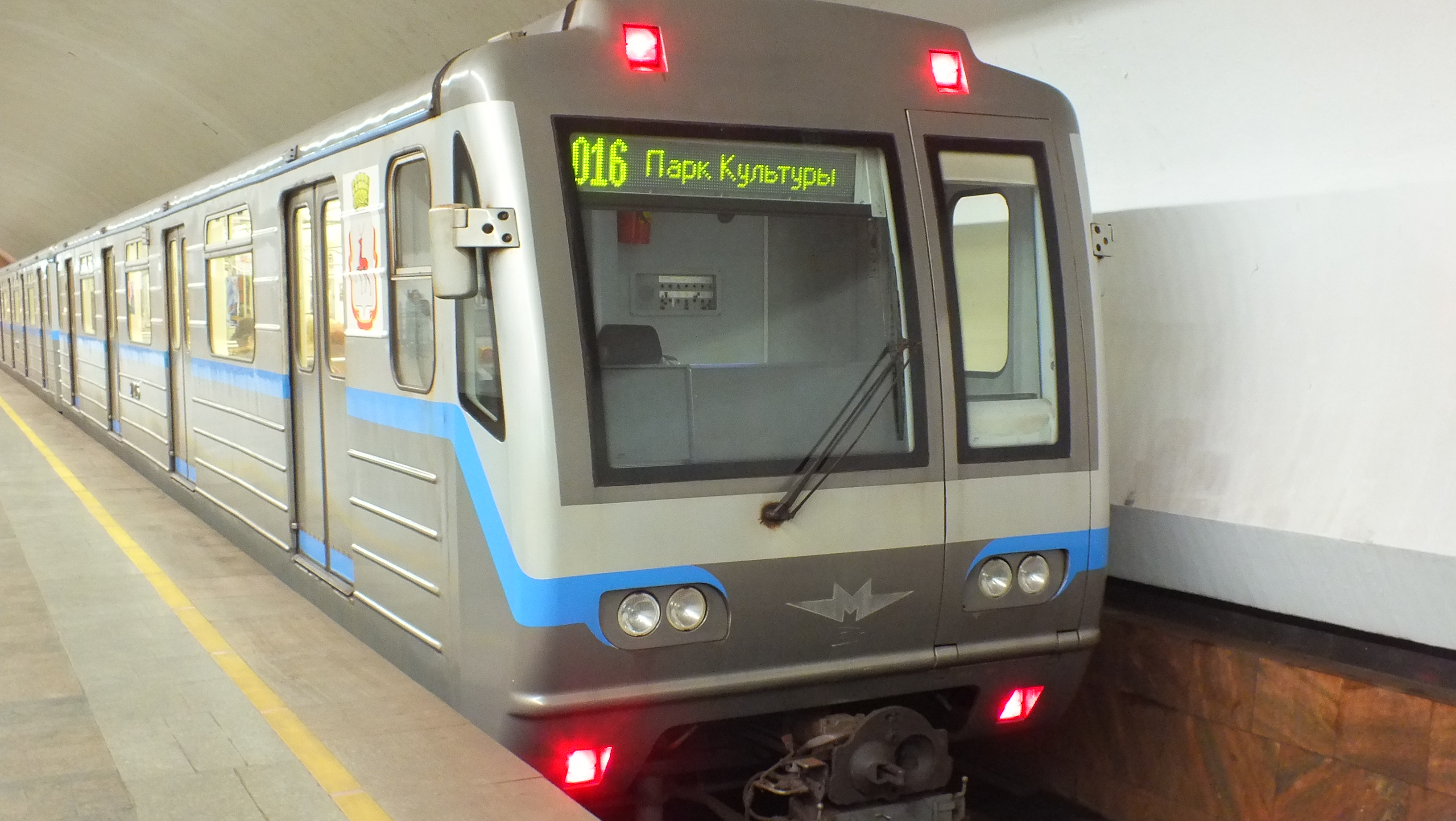 81-717.6/714.6 train on Chkalovskaya station (Nizhny Novgorod Metro). September 2015.